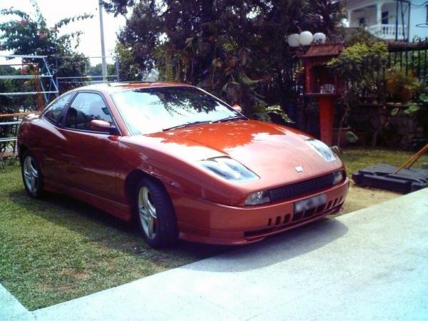 Fiat Coupé 20v Turbo 2000 Model (with factory fitted Body Kit)